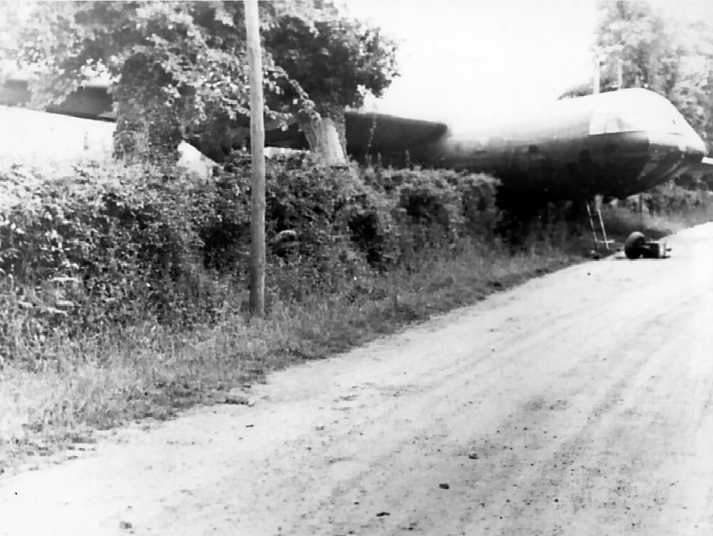 Allied glider that crash-landed during the early stages of the invasion of France, near Hiesville. 6 June 1944